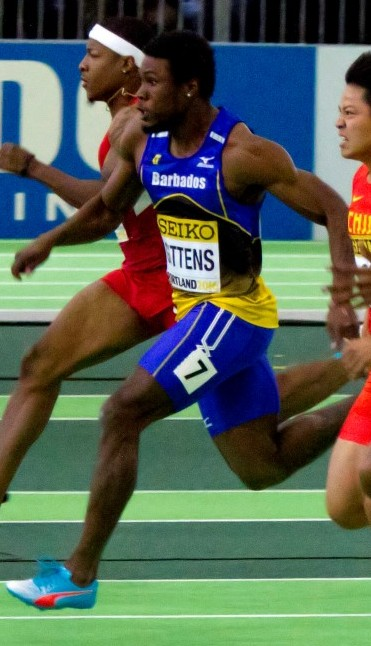 Ramon Gittens competing at the 2016 IAAF World Indoor Championships